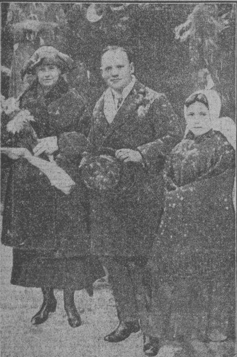 Mayor of Westkapelle